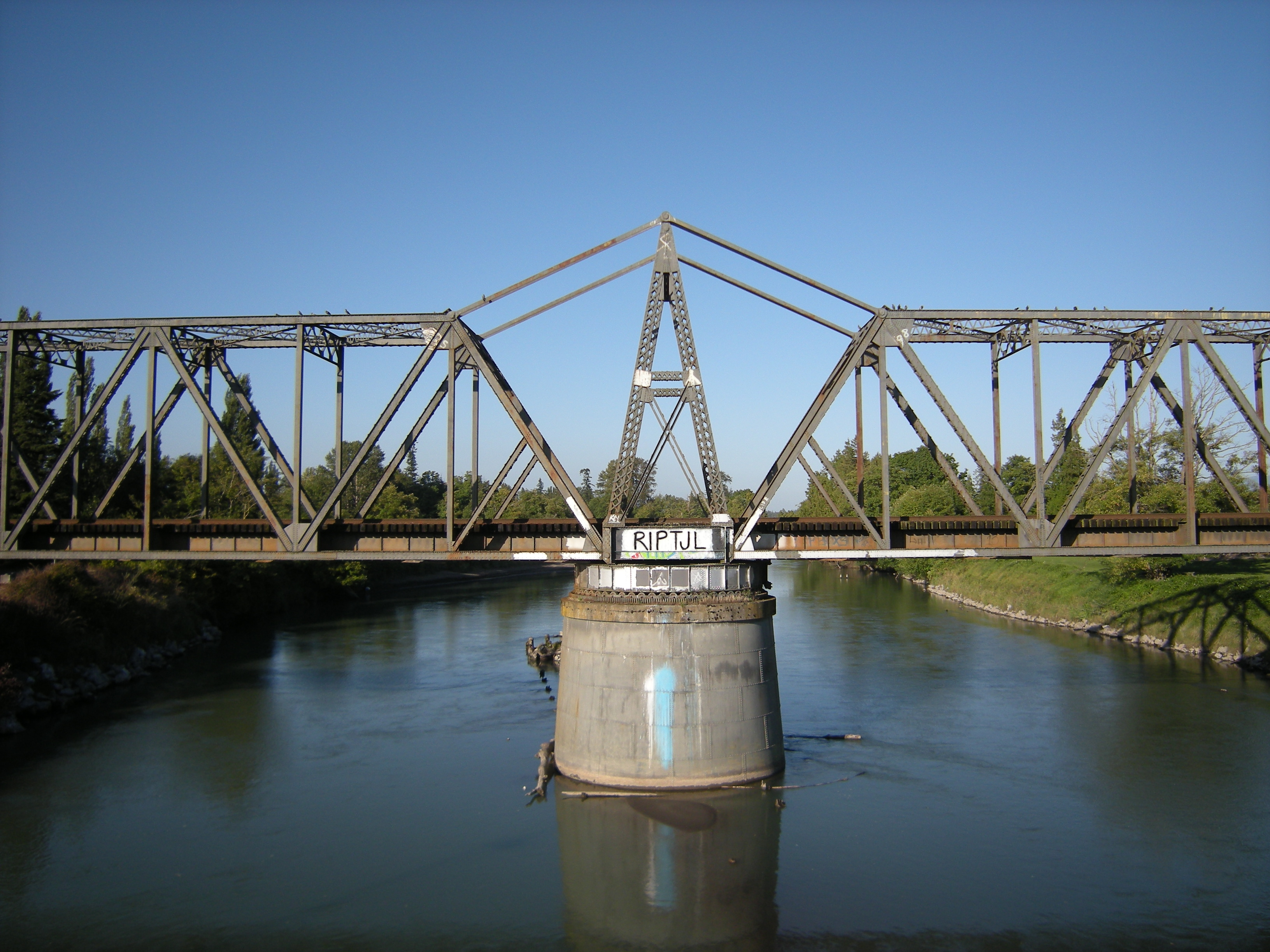 Rail bridge over the Nooksack River, Ferndale, Washington.